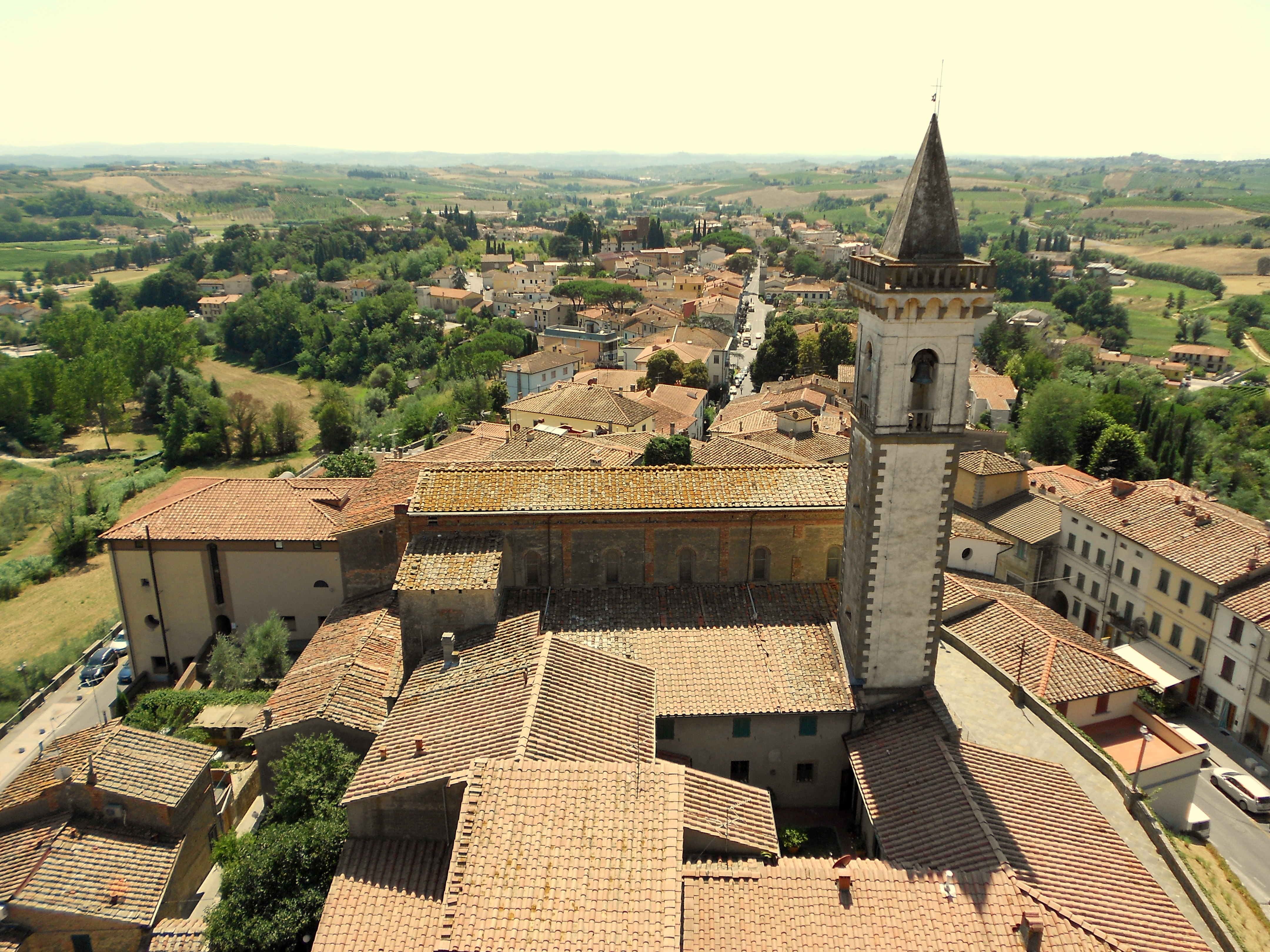 View of Vinci, Tuscany, Italy from its castle tower.